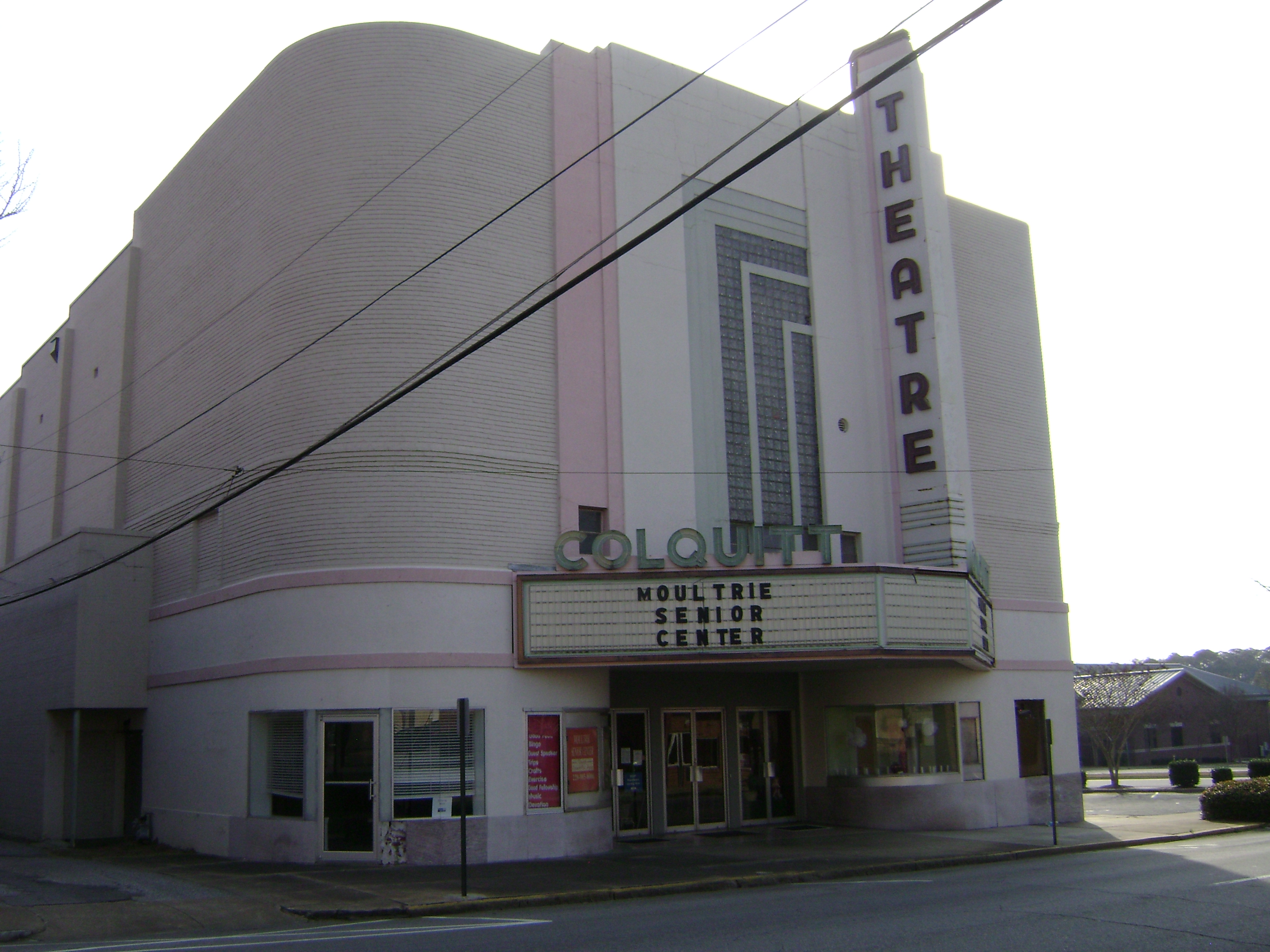 Moultrie Senior Center at former Colquitt Theater on 1st Ave. SW, Moultrie, Colquitt County, Georgia